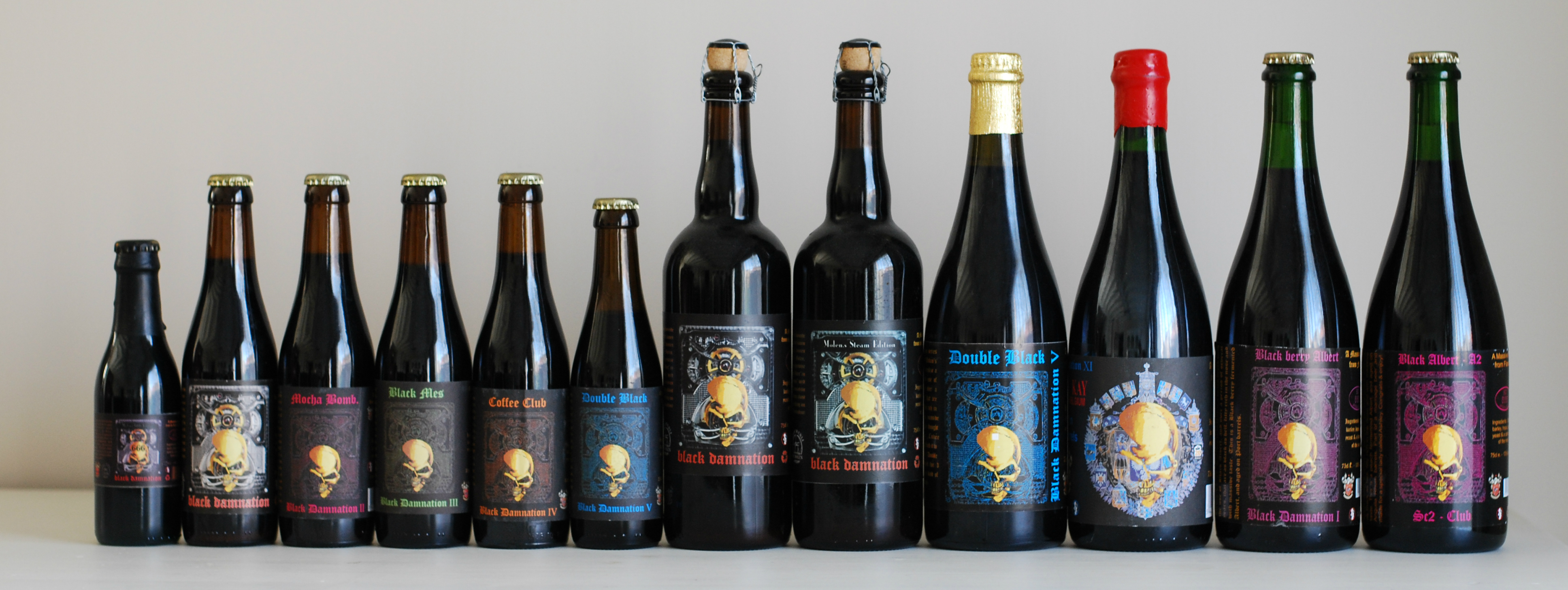 Left to right: Black Damnation 666, Black Damnation, Mocha Bomb, Black Mes, Coffee Club, Double Black, Steam Edition, Black Damnation, Double Black, Special Kay, Black Berry Albert, Nuptiale A2.